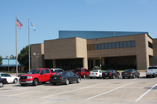 TTC Peoria campus